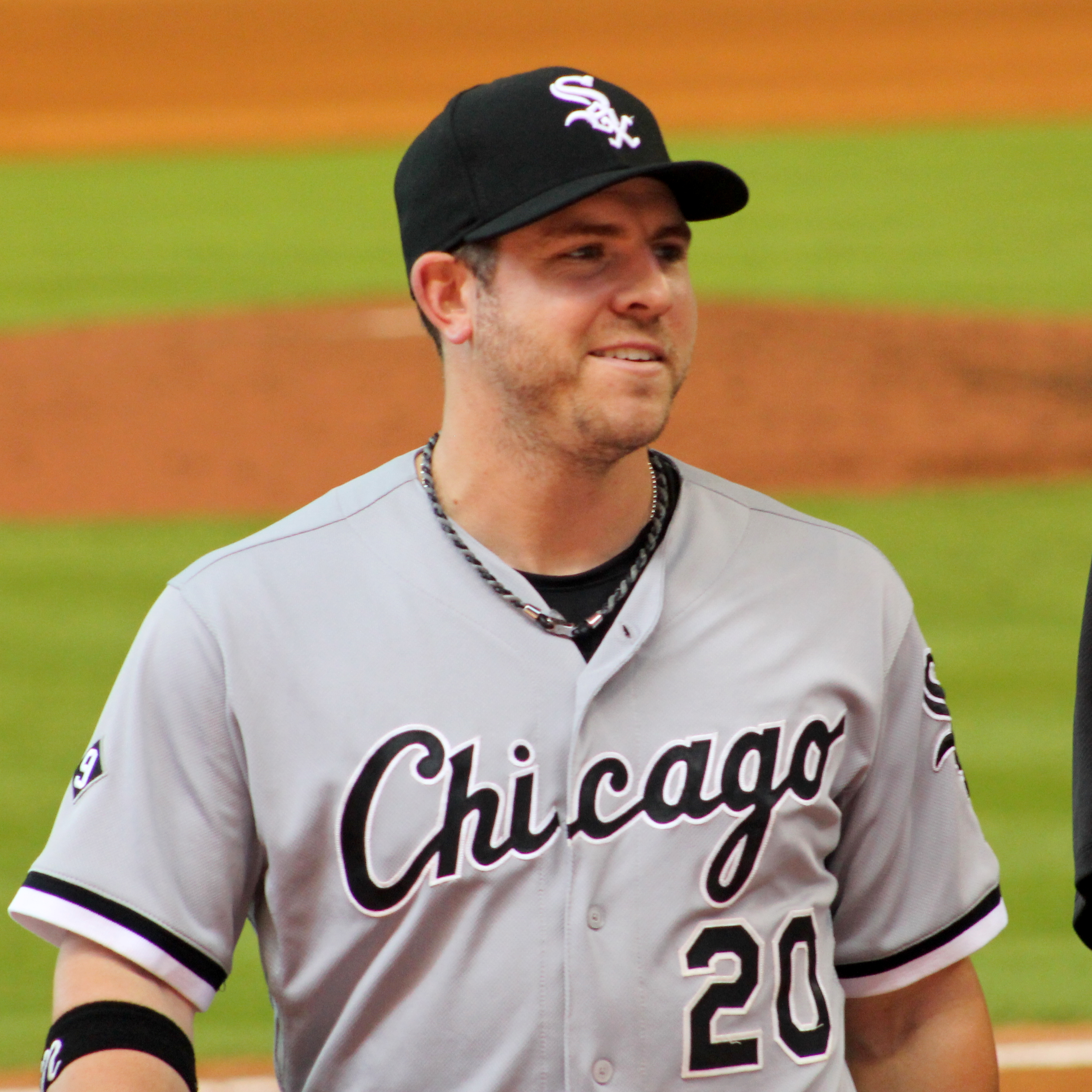 Professional baseball player J. B. Shuck after a game in Houston at Minute Maid Park in May 2015.